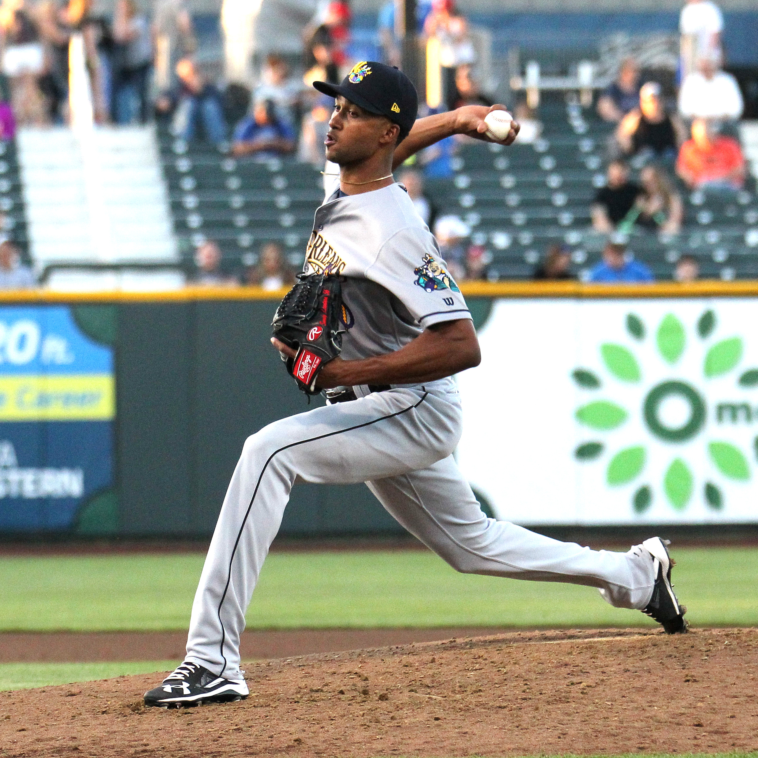 Sandy Alcántara pitching for the New Orleans Baby Cakes in Omaha, Nebraska in 2018